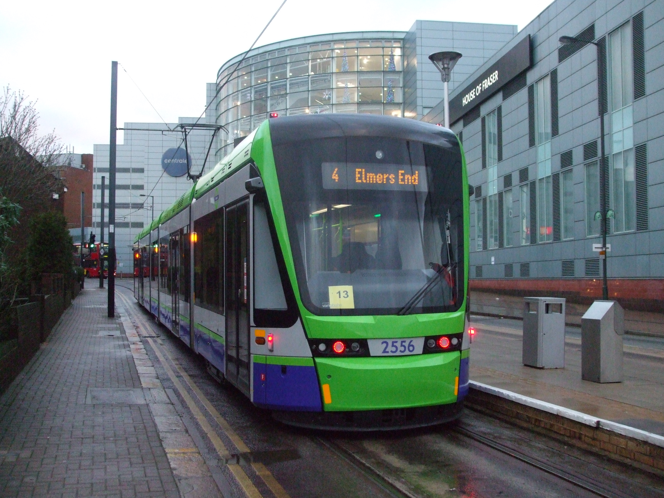 Tramlink tram 2556 at Centrale tram stop with an Elmers End service in December 2012.